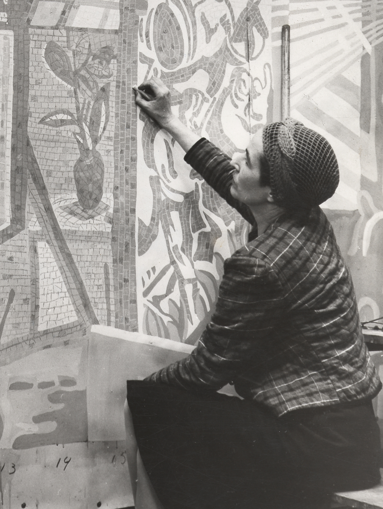 Ruth Reeves working on a mosaic mural. Photographed for the Works Progress Administration.Identification on verso (handwritten and stamped): Federal Art Project W.P.A.; Photographic Division; 110 King Street; New York City Location: 628 West 24 St.; Date: 6/10/40; Negative No.: 4794-1; Photographer: Shalat.Identification on accompanying label (typewritten): Ruth Reeves, right, and an assistant at work on a large mosaic mural in the Stained Glass Shop, a unit of the New York City WPA Art Project, located at 624 West 24th Street, New York City. Miss Reeves, well-known textile designer, mural painter and Guggenheim Fellowship winner for 1940, has adopted the familiar theme of school activities for the mural which is to be installed in the William Cullen Bryant High School.